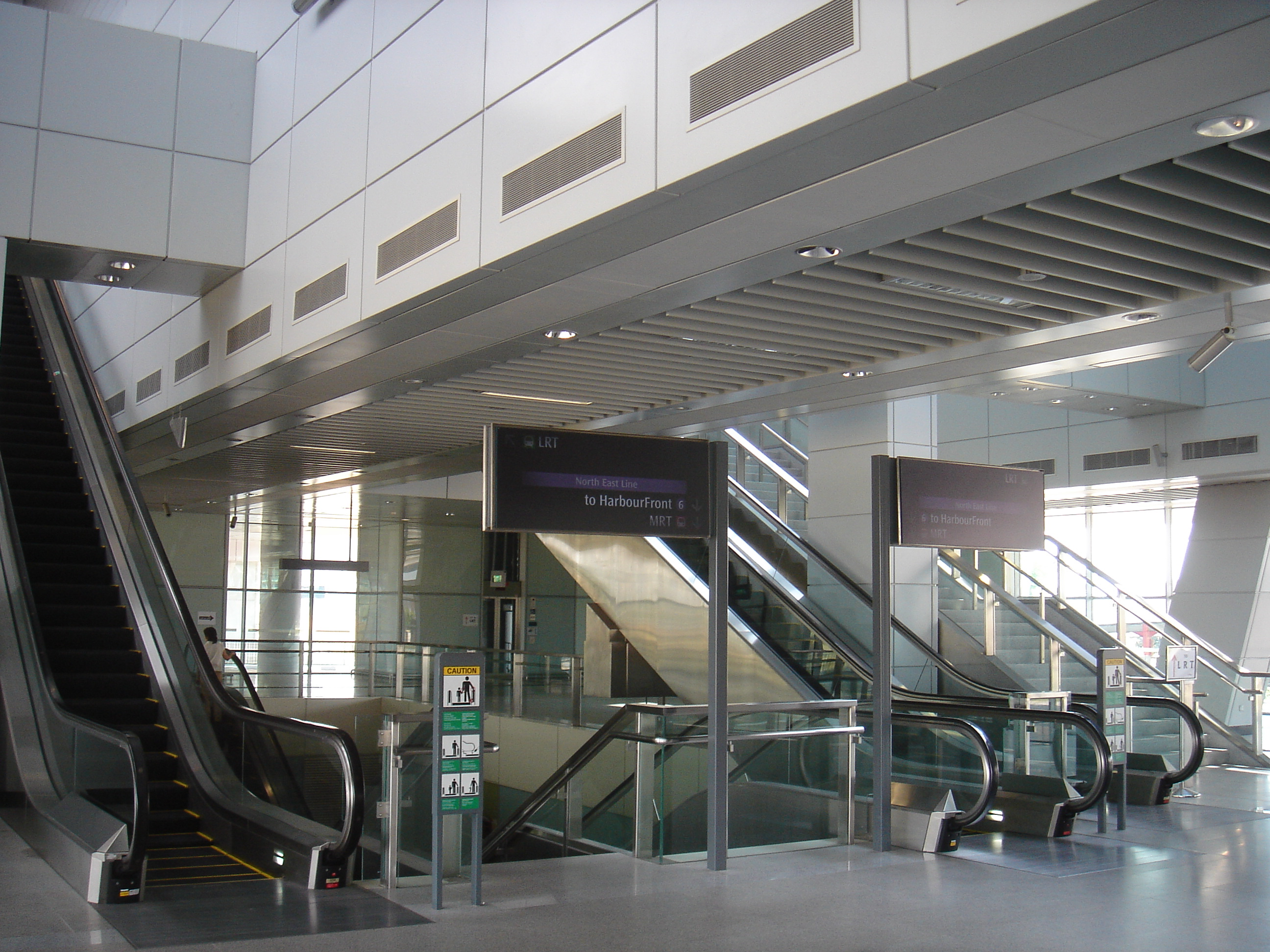 Concourse level for Punggol MRT/LRT Station allowing transfer. The set of escalators lead to the LRT platform. The Jun 03 version depicts the section as still under construction.